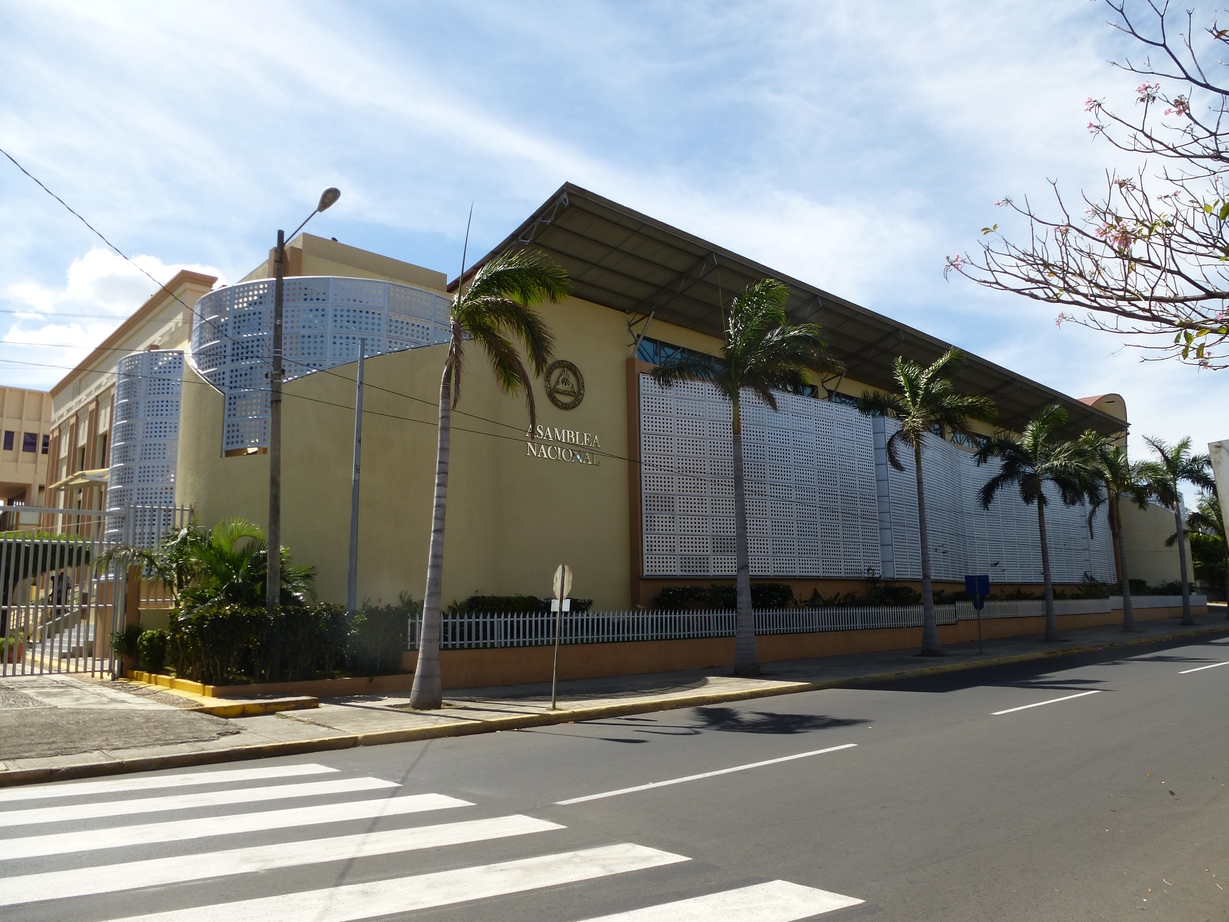 Building of the nicaraguan National Assembly in Managua